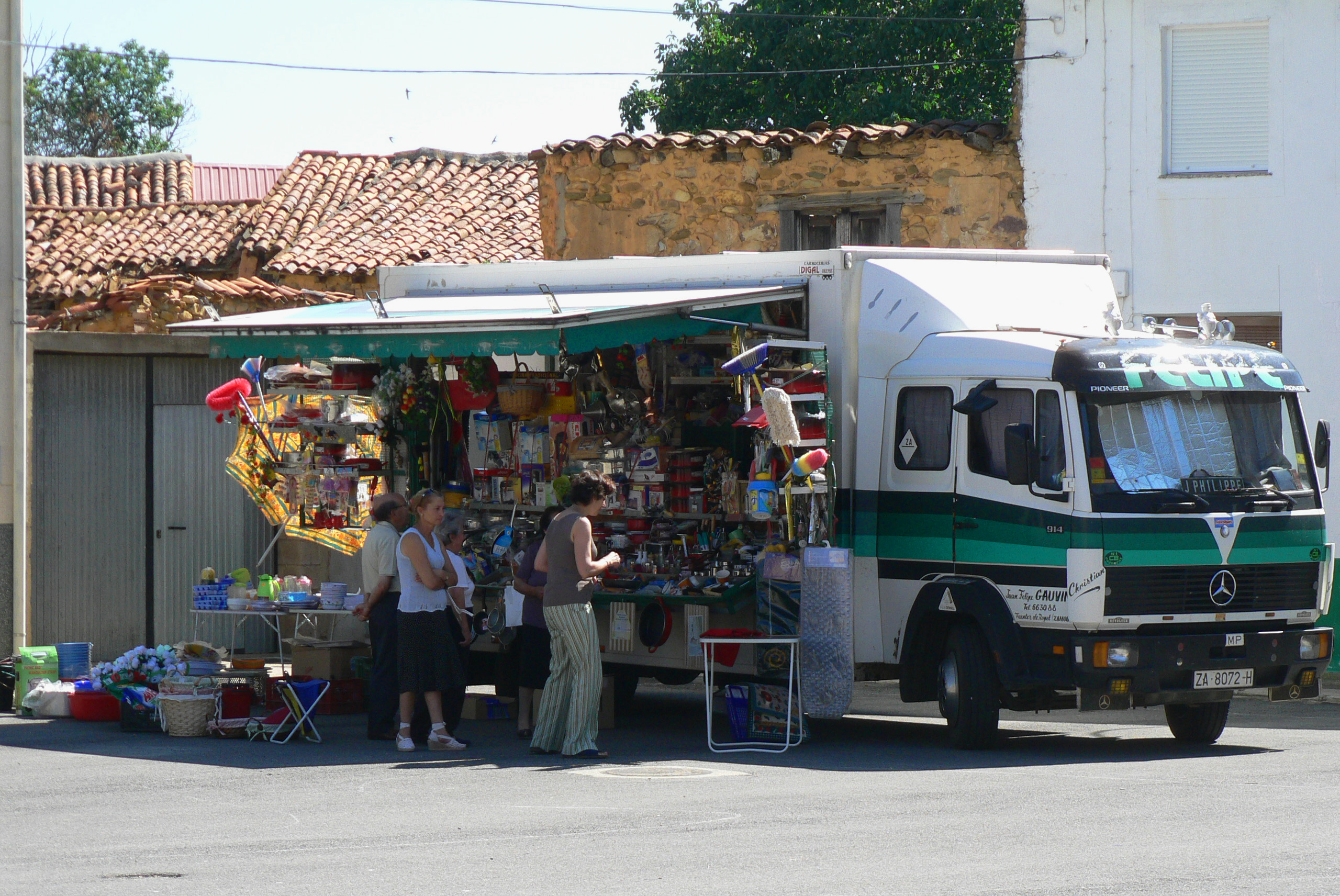 A rolling store or shop truck in the spanish village of Nogarejas, province of León